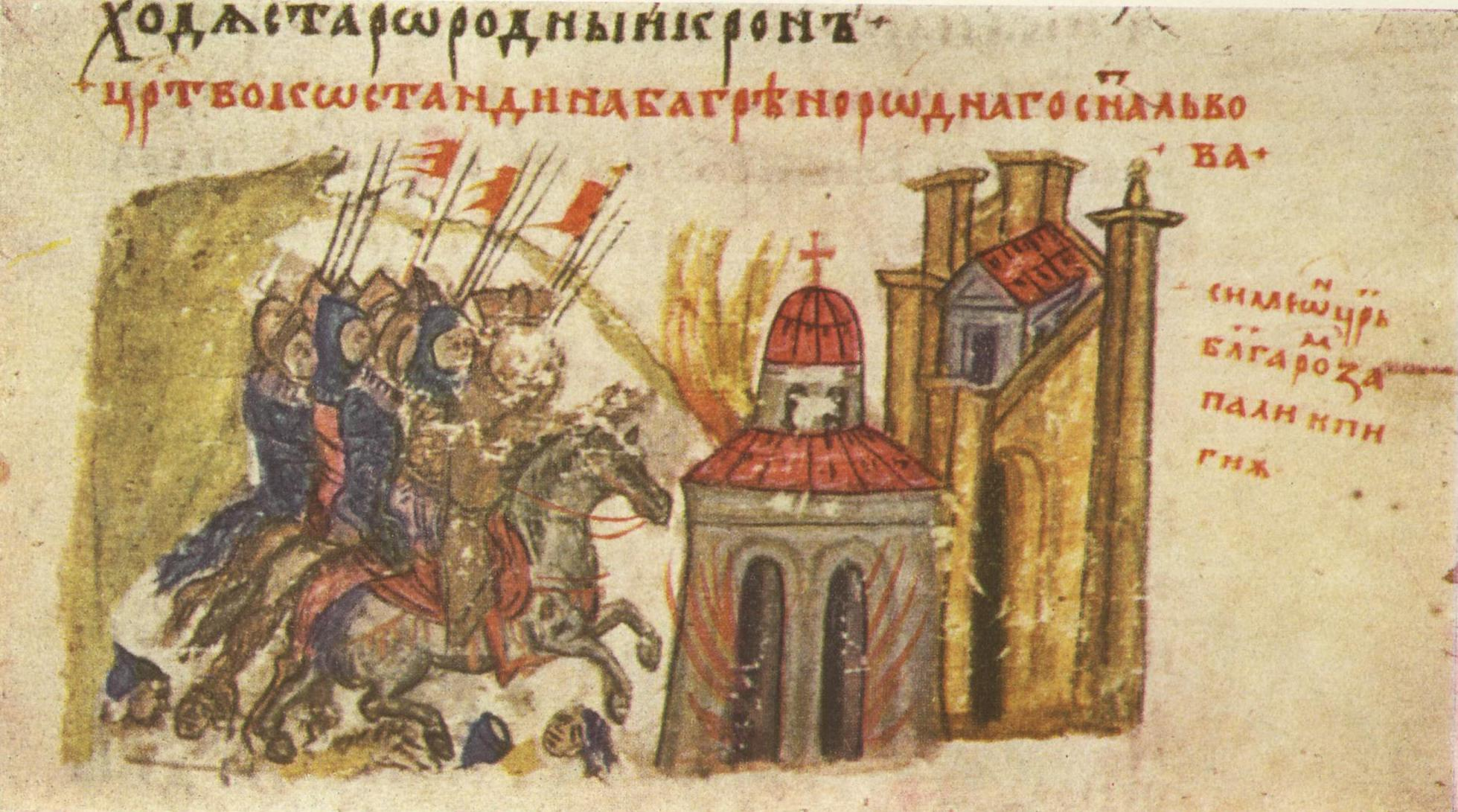 Miniature 61 from the Constantine Manasses Chronicle, 14 century: Incineration of the church "Saint Mary at the Spring" near Constantinople, under the orders of tsar Simeon I of Bulgaria.